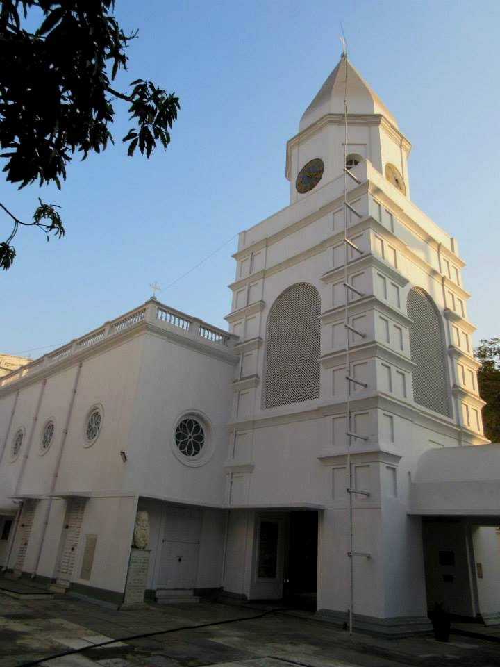 inside the Armenian Church, Kolkata